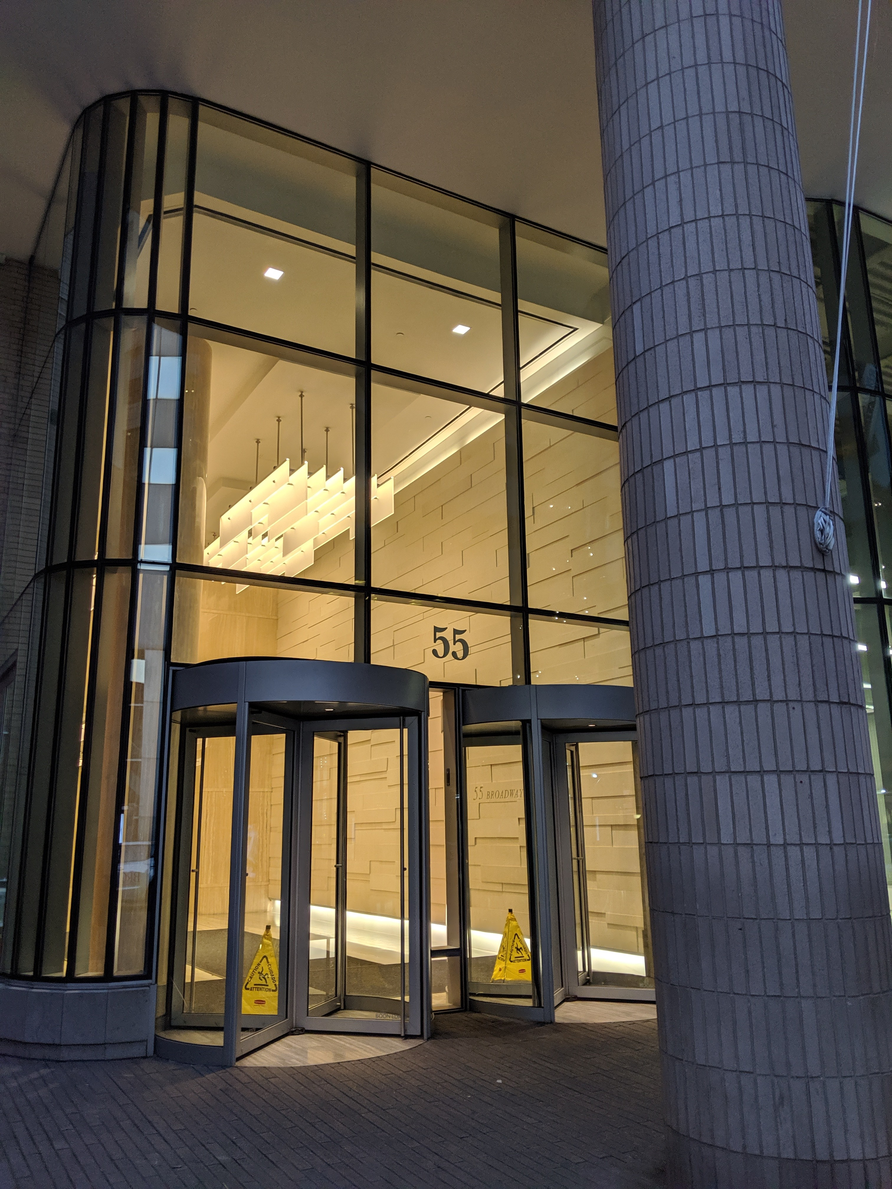 image of the front of 55 Broadway in manhattan